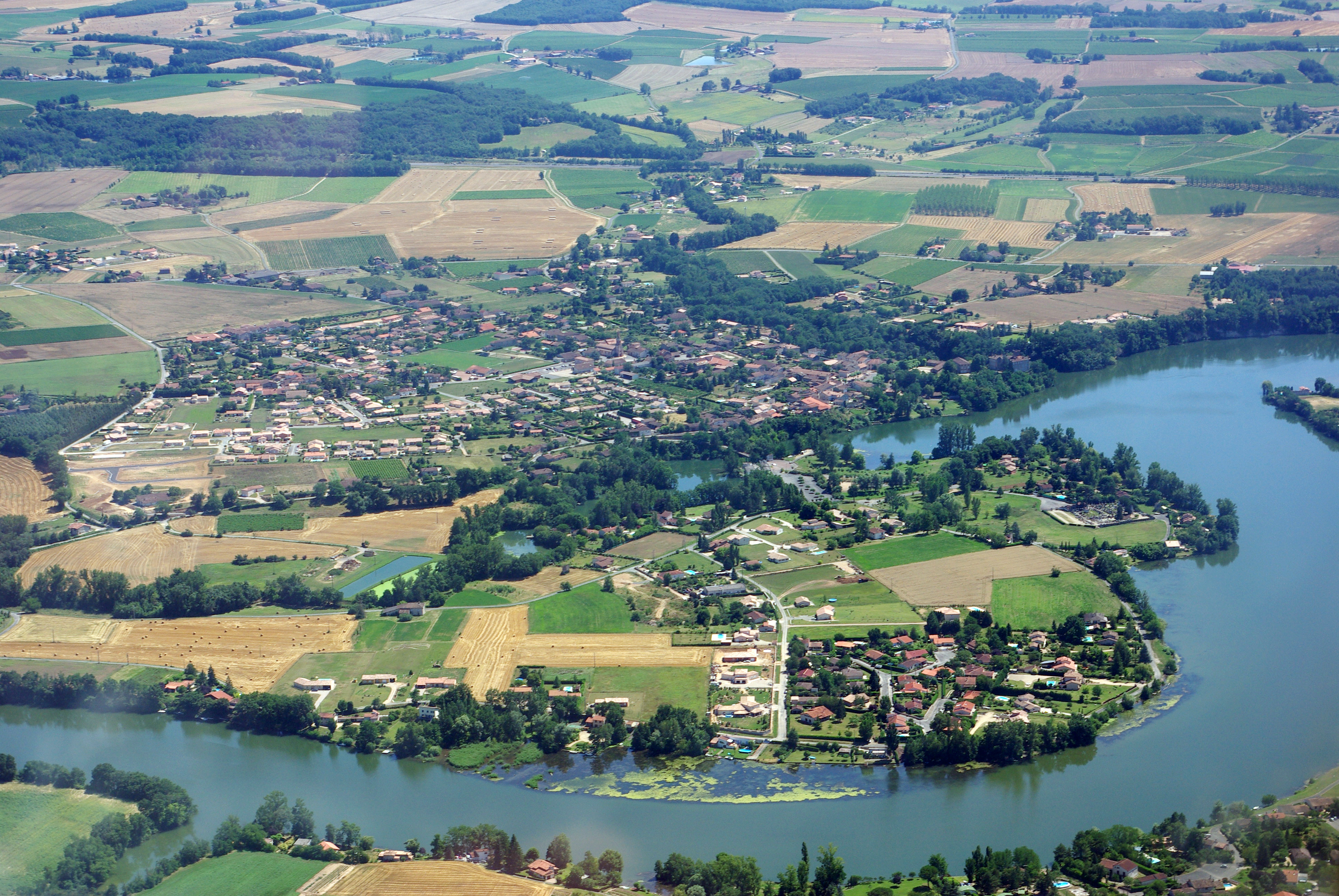 Aerial photo of Lagrave (Tarn, France)